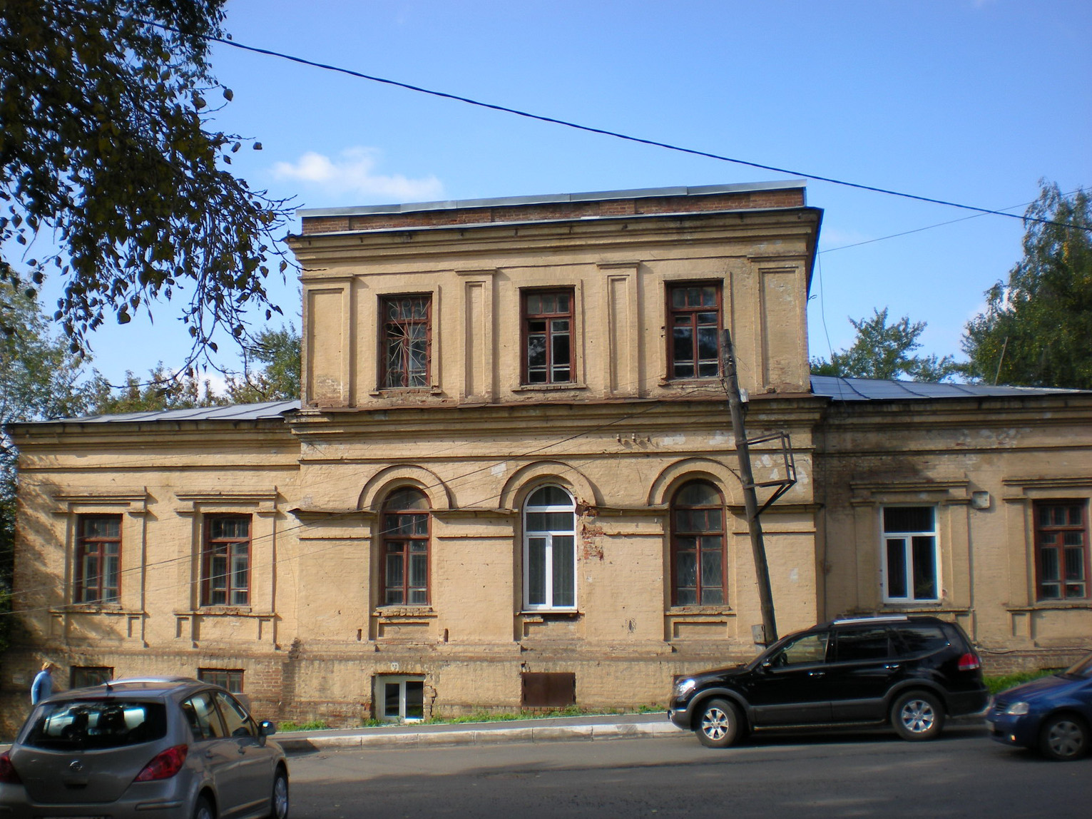 Kokovikhins' house (Izhevsk, Sverdlova Street, 9)Удмурт: Коковихинъёслэн юртсы (Иж кар, Свердлов урам, 9)